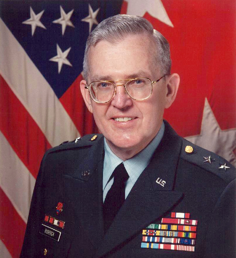 Major General Donald Burdick, Director of the Army National Guard from 1987 to 1991.